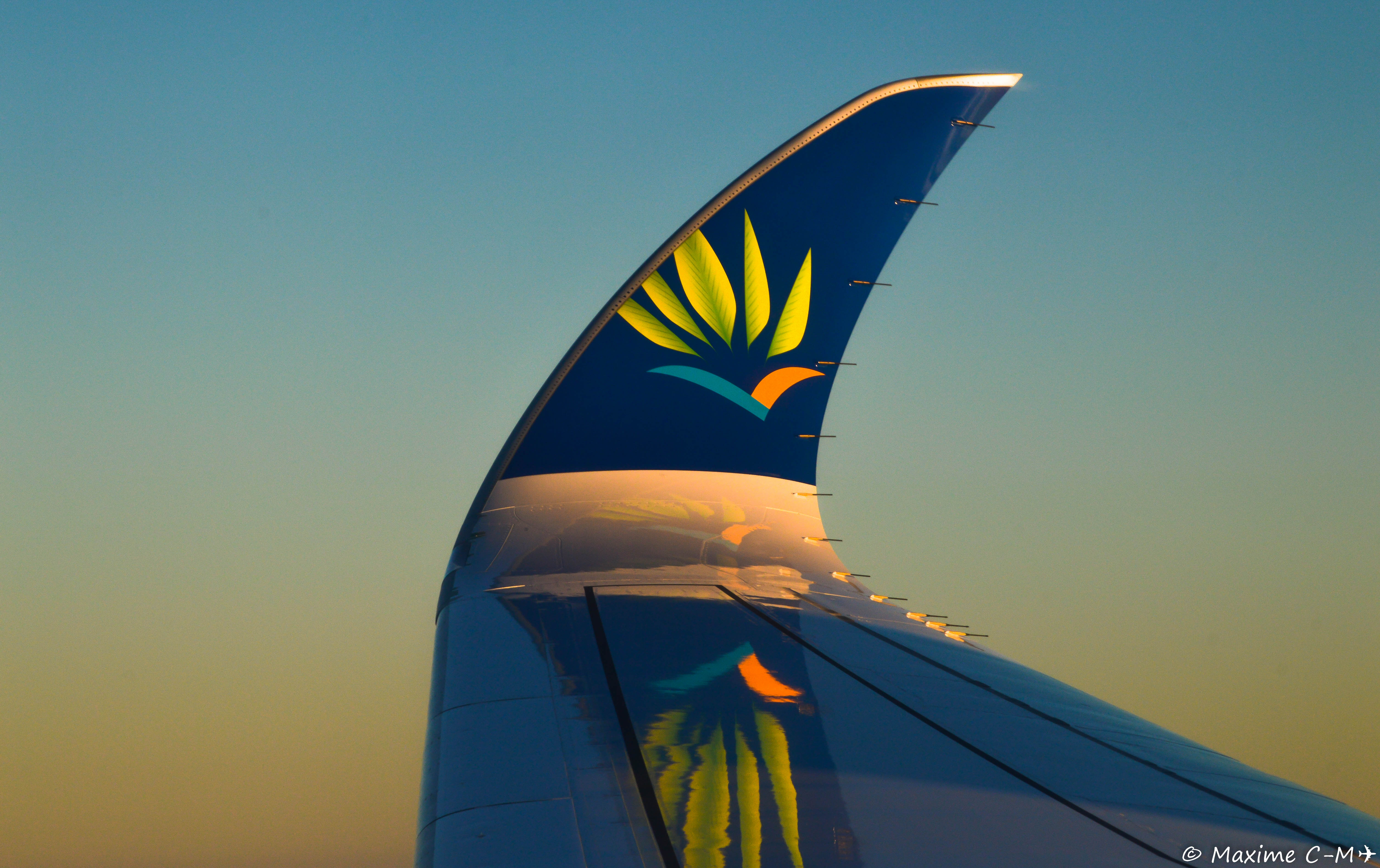 F-HHAV 🇫🇷 Air Caraïbes 🇫🇷 Airbus A350-941 In Flight ( Fort de France to Paris Orly )